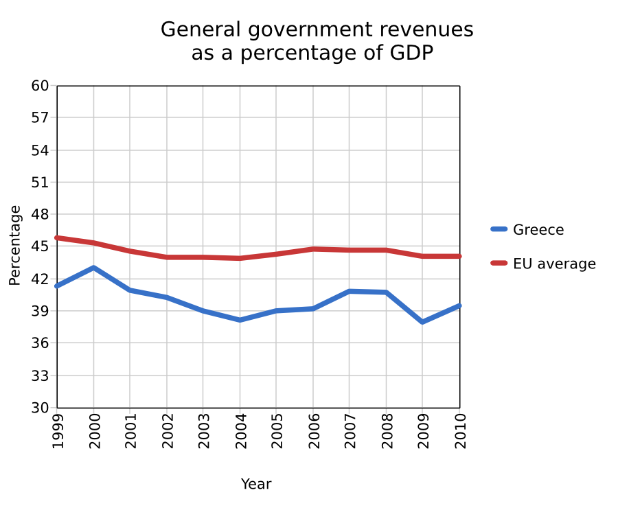 Graph of Greece's revenues 1999-2010 as a percentage of GDP compared to the EU average.